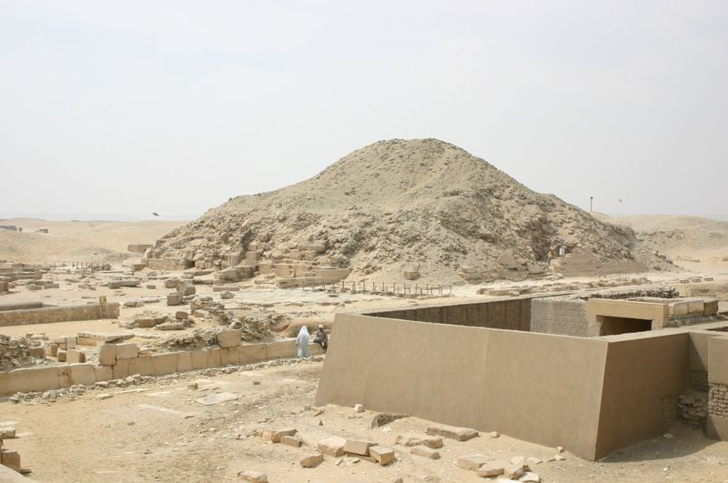 Pyramid of Unas, taken in 2005